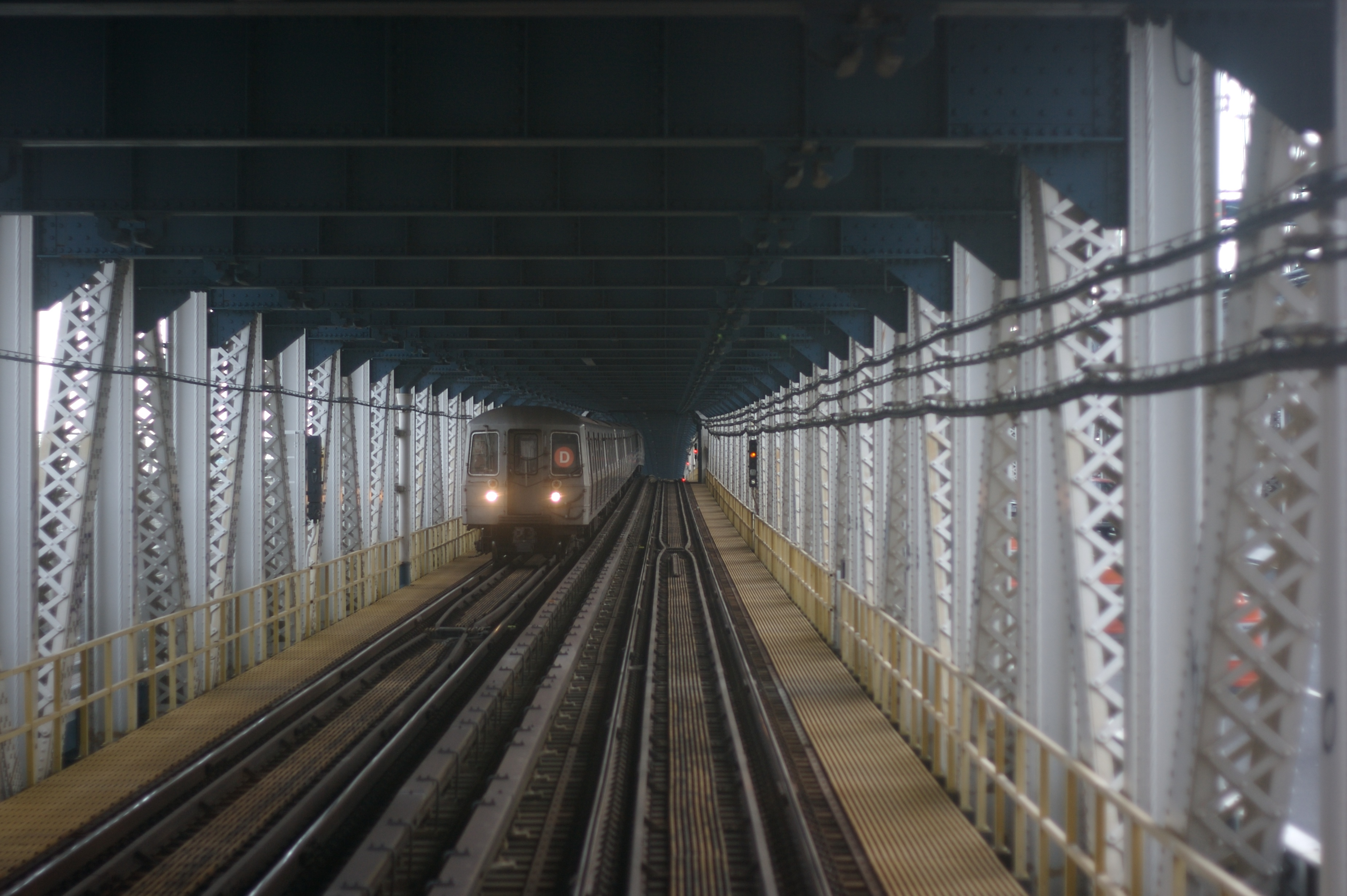 Tracks on the north side of the Manhattan Bridge, looking towards Brooklyn. New York City, NY.